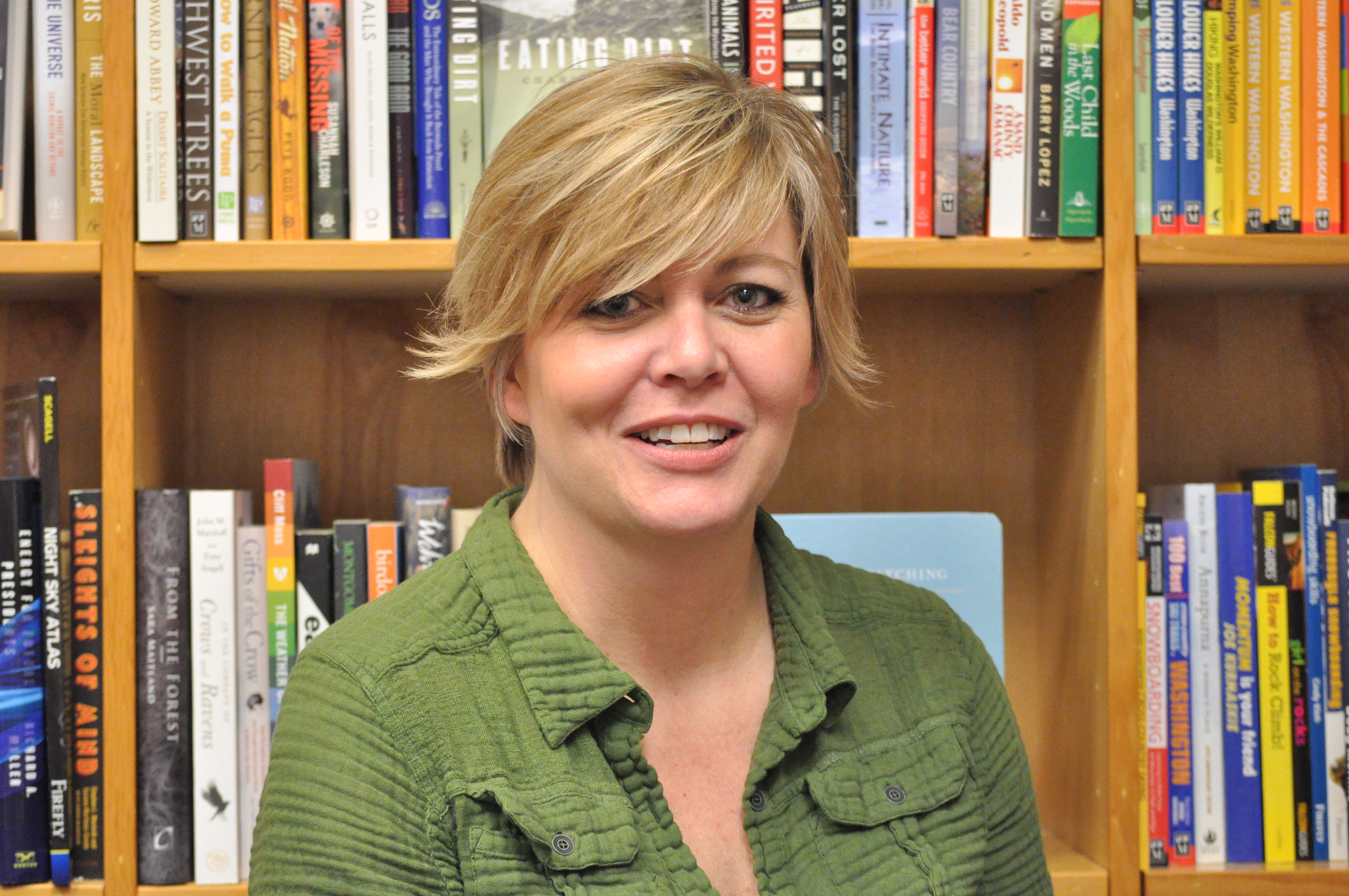 Author Lisa McMann appearing at Secret Garden Books, Ballard, Seattle, Washington.